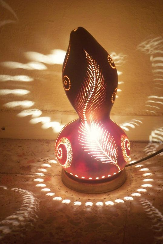 Handicraft gourd lamp Artist=Nurettin Taskaya Photo =Nurettin Taskaya Mersin-TURKEY